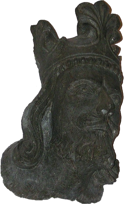 Removed background from image:King Magnus VI of Norway. Stavanger Cathedral.JPG King Magnus VI of Norway. Stone head in Stavanger Cathedral. Photographed by Gunleiv Hadland